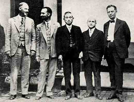 kyoji Suyehiro who visited the United States to give a lecture in American Society of Civil Engineers in 1931. (left to right):John Buwalda, R.R. Martel, Kyoji Suyehiro, Beno Gutenberg, and John August Anderson.